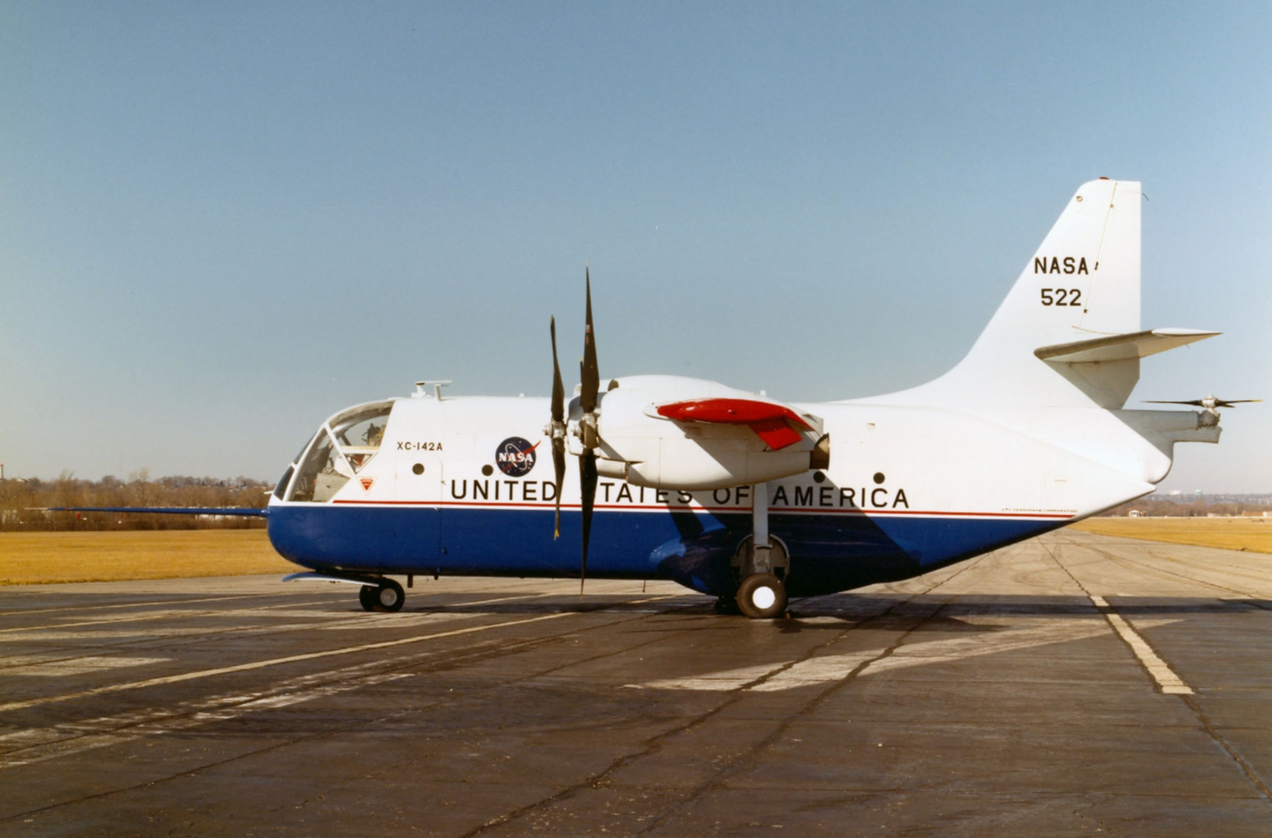 Chance-Vought XC-142A on ramp at USAF Museum in Dayton, Ohio, USA